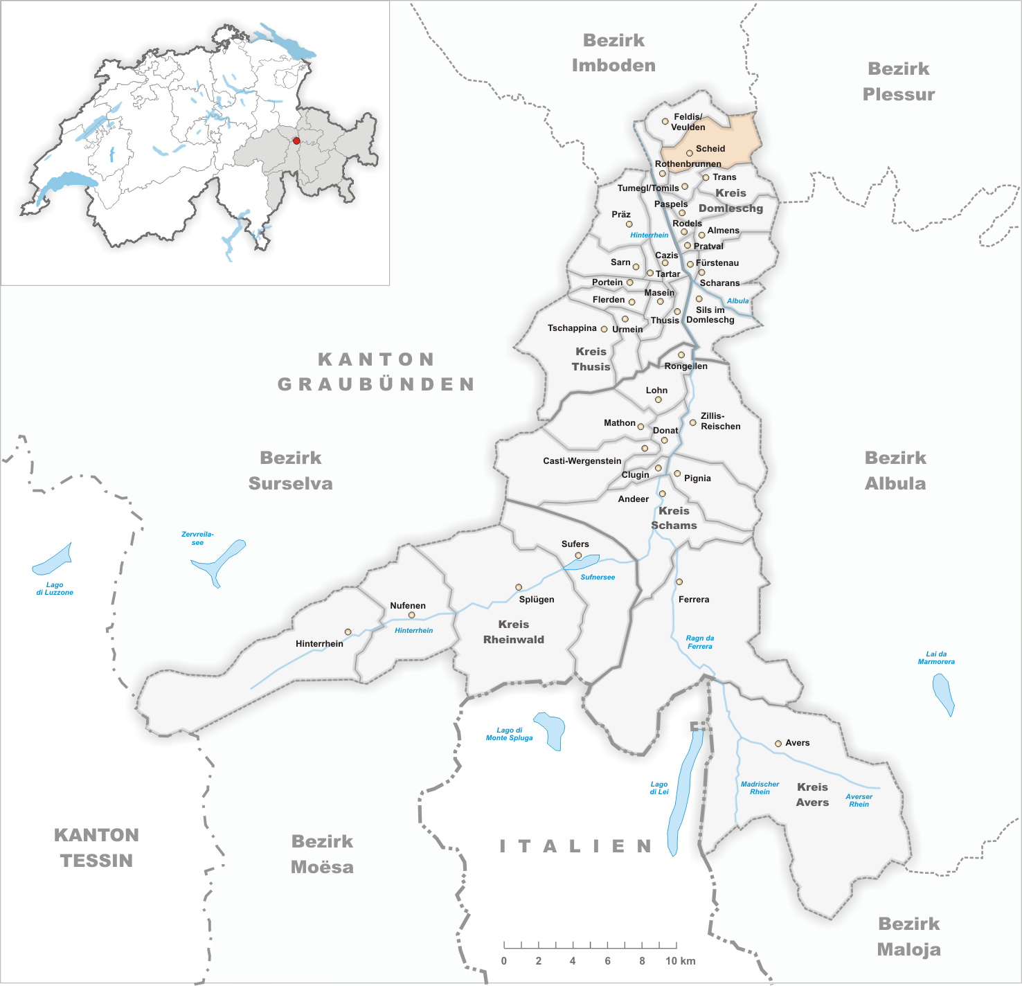 Municipality Scheid